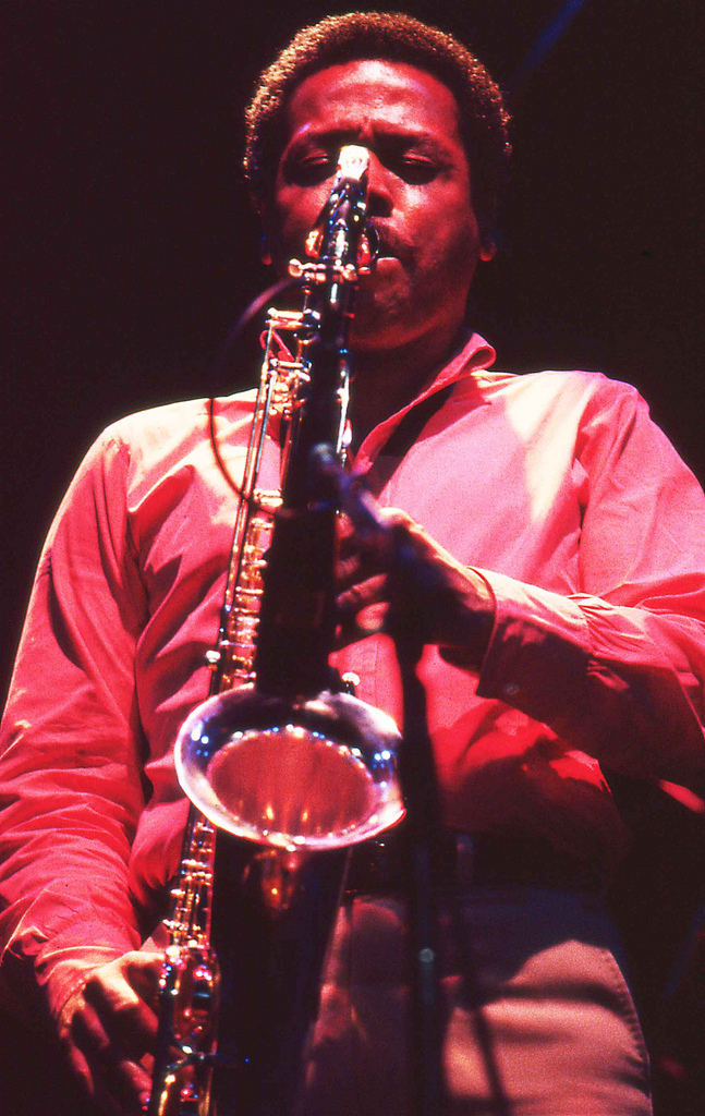 Wayne Shorter playing with Weather Report, Amsterdam, 1980